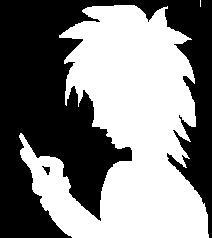 Smartphone Addicts pictures